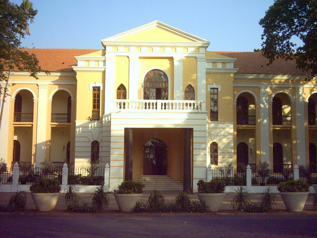 The renovated GMC building in Goa, India